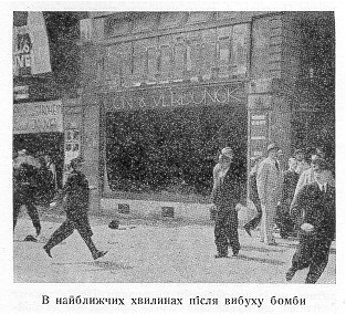 Rotterdam street after Yevhen Konovalets' assassination